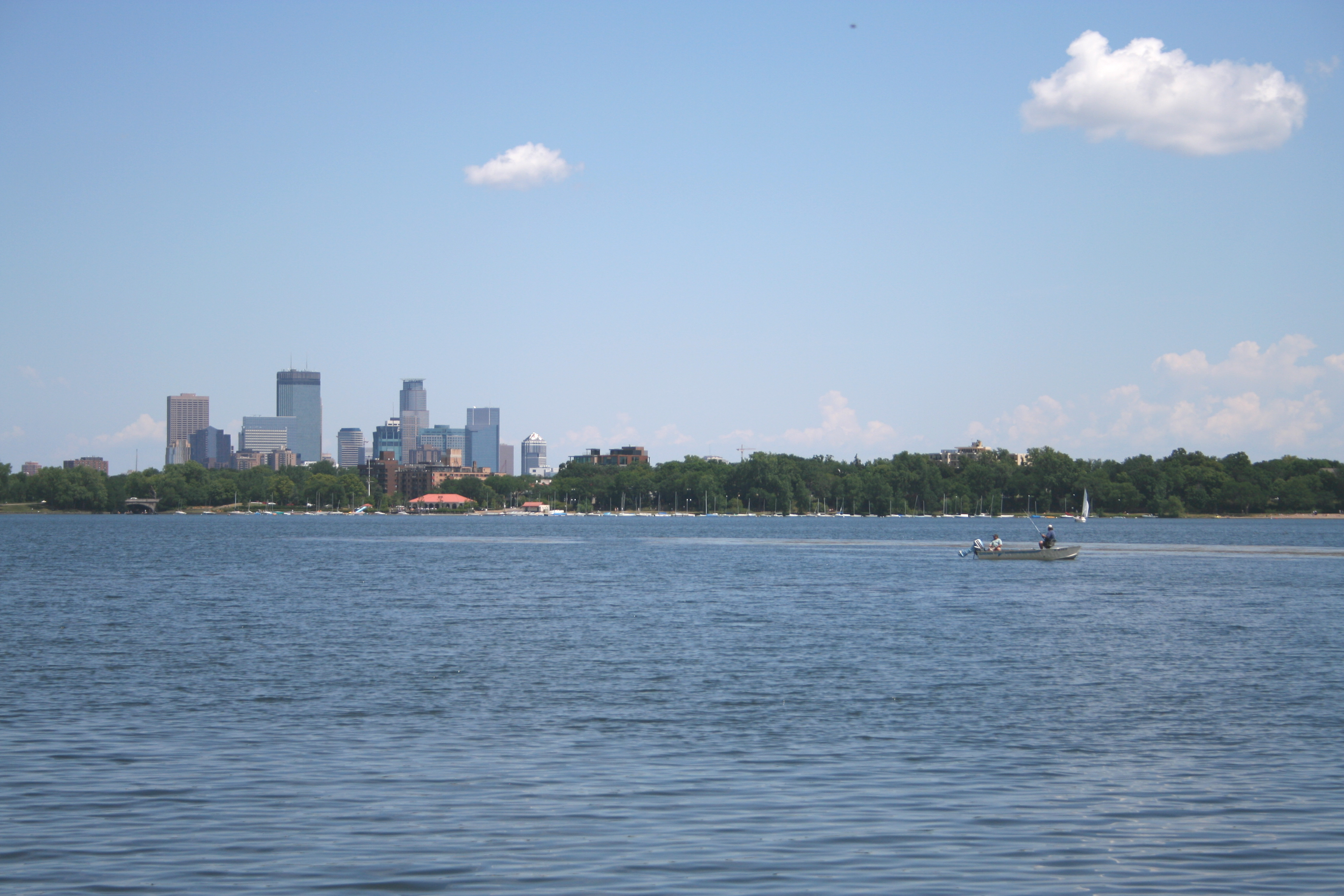 Lake Calhoun, Minneapolis, Minnesota